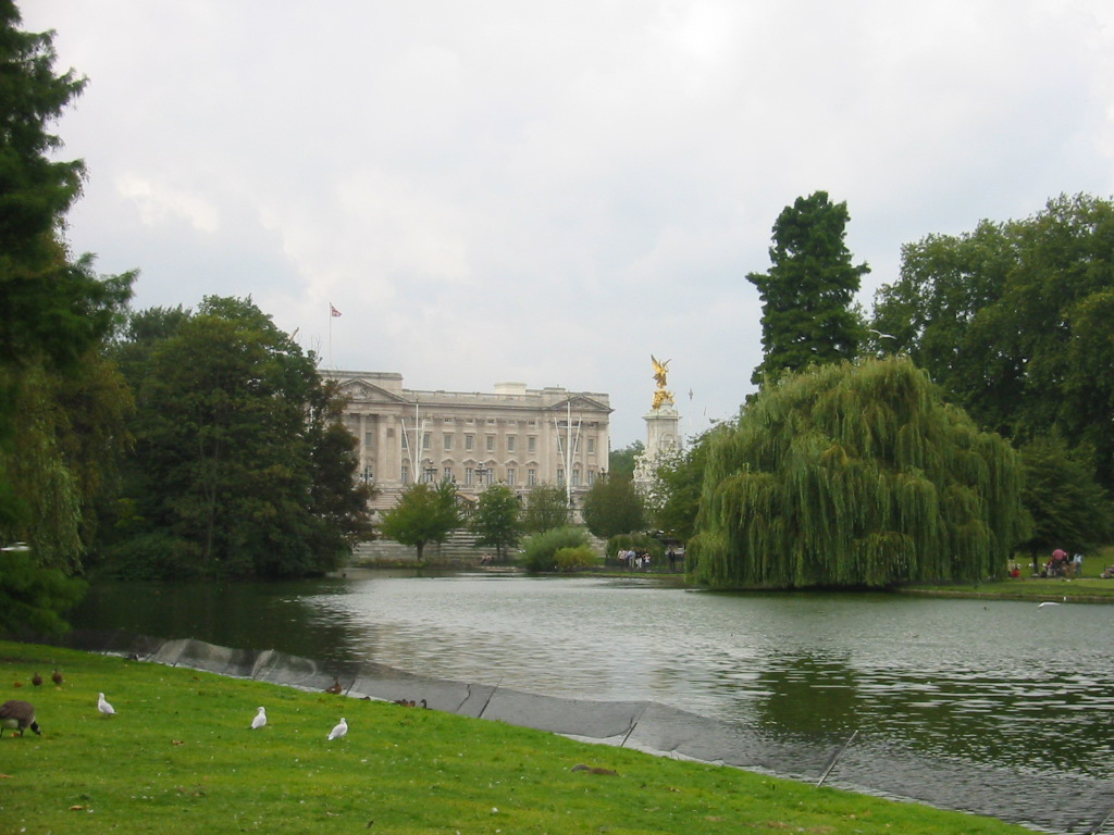 Buckingham Palace from St. James's Park